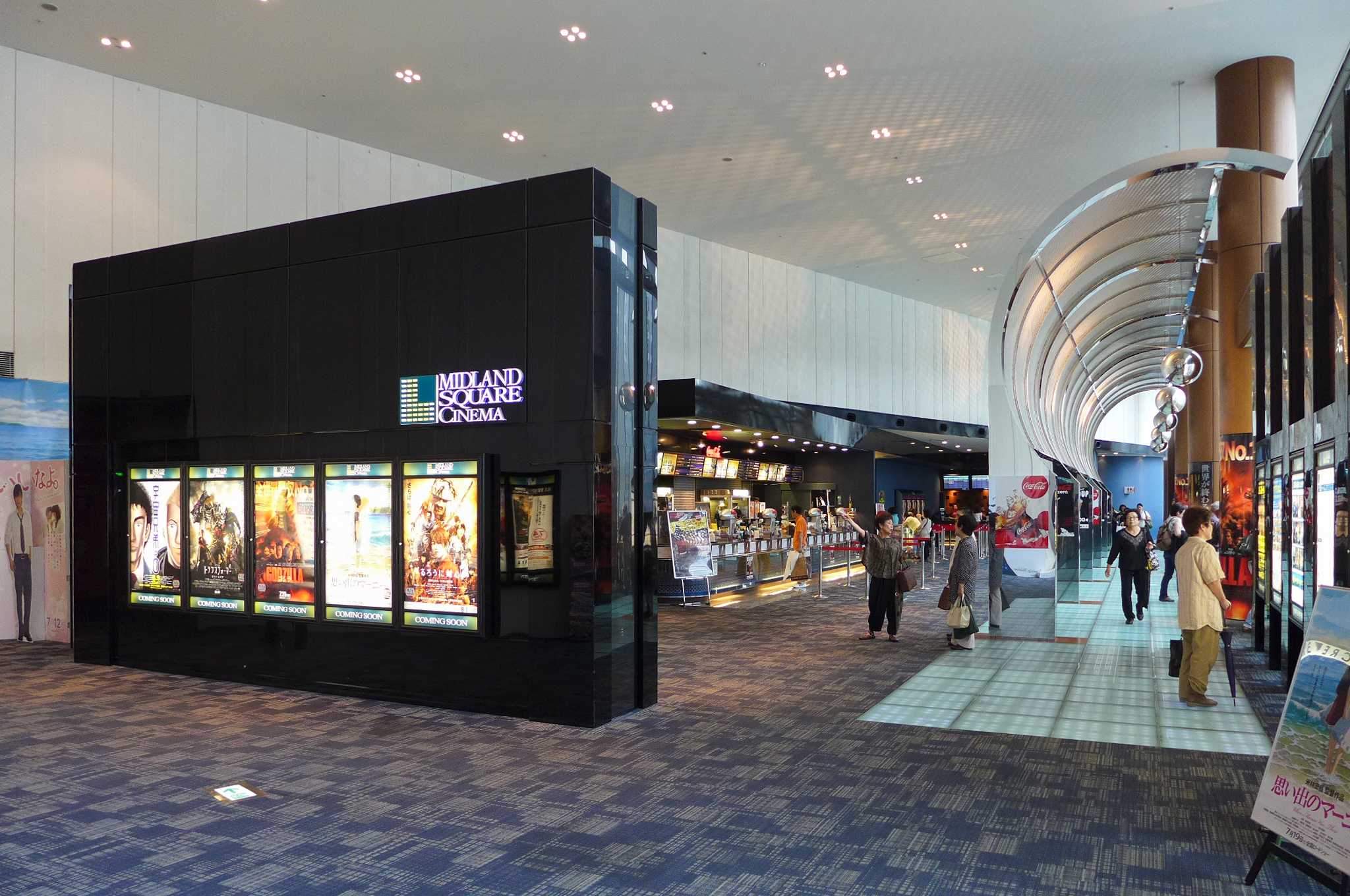 Movie theater "Midland Square Cinema" in Nagoya, Japan.